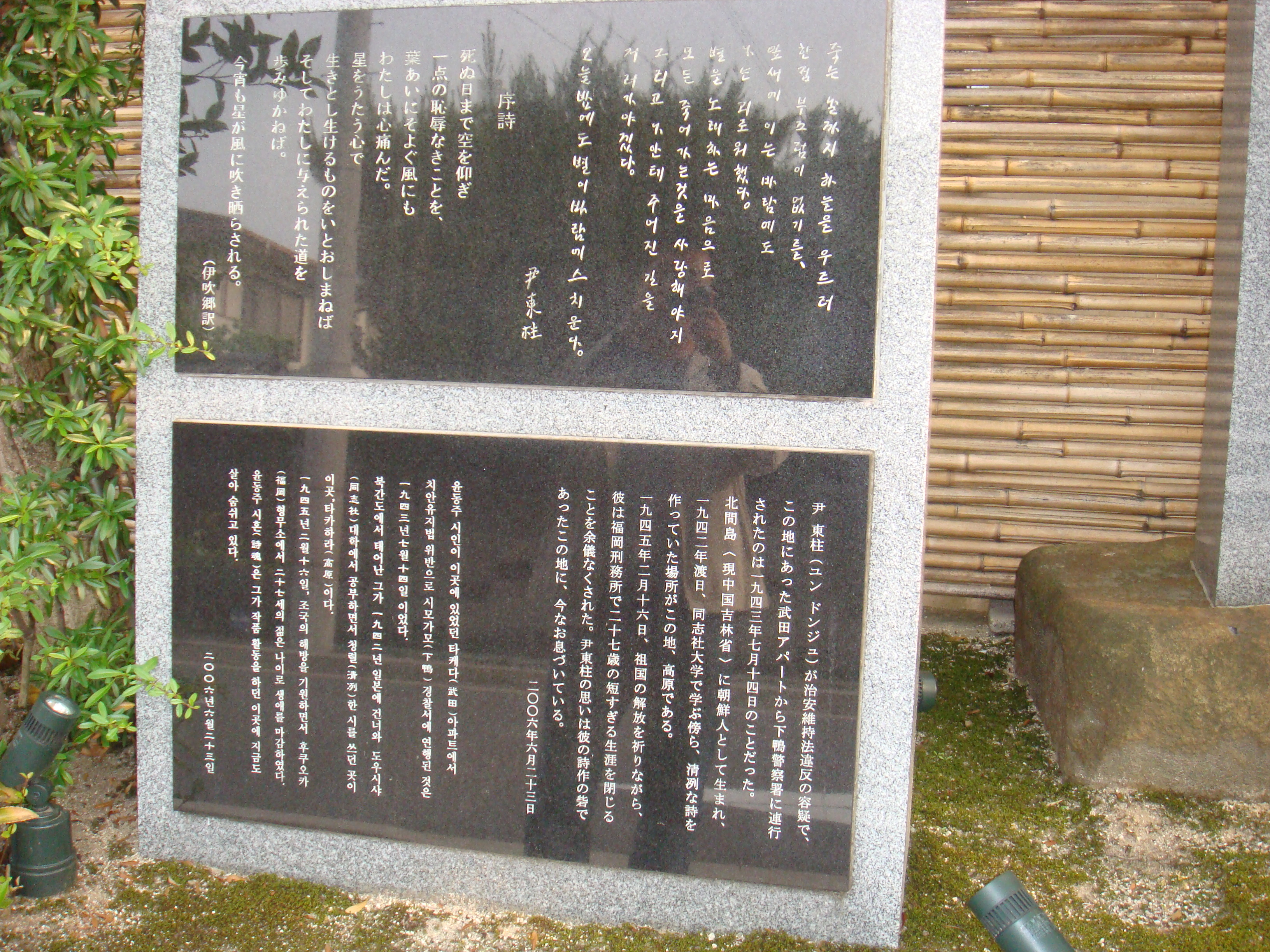 Kyoto Near by Kyoto University